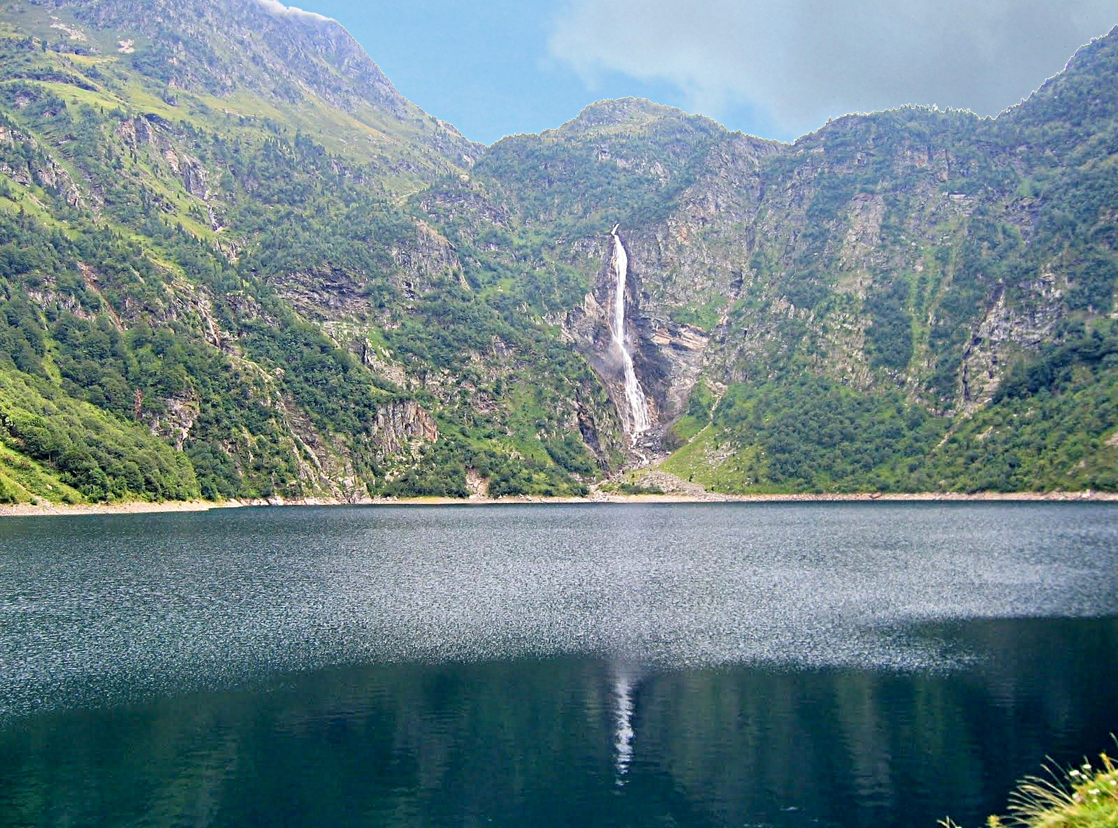 The lake of Oô, Luchon, Pyrenees, France.